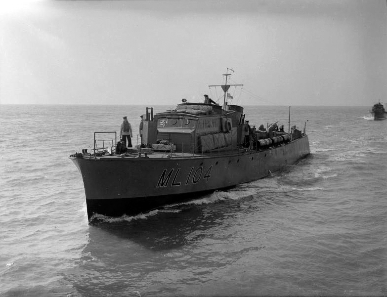 Motor Launch ML 104,(Fairmile A) Based at HMS Wasp (Dover) Part of the 50th Motor Launch Flotilla, fitted with mines, returning to base with leading seaman H J Barrett(DSM) preparing to disembark. Another motor launch in the background is possibly ML103.